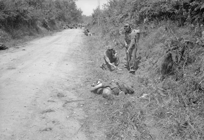 The British Army in Normandy 1944 Troops use a mine detector along the side of a road during the offensive south of Caumont, 31 July 1944. A dead German lies in the foreground.